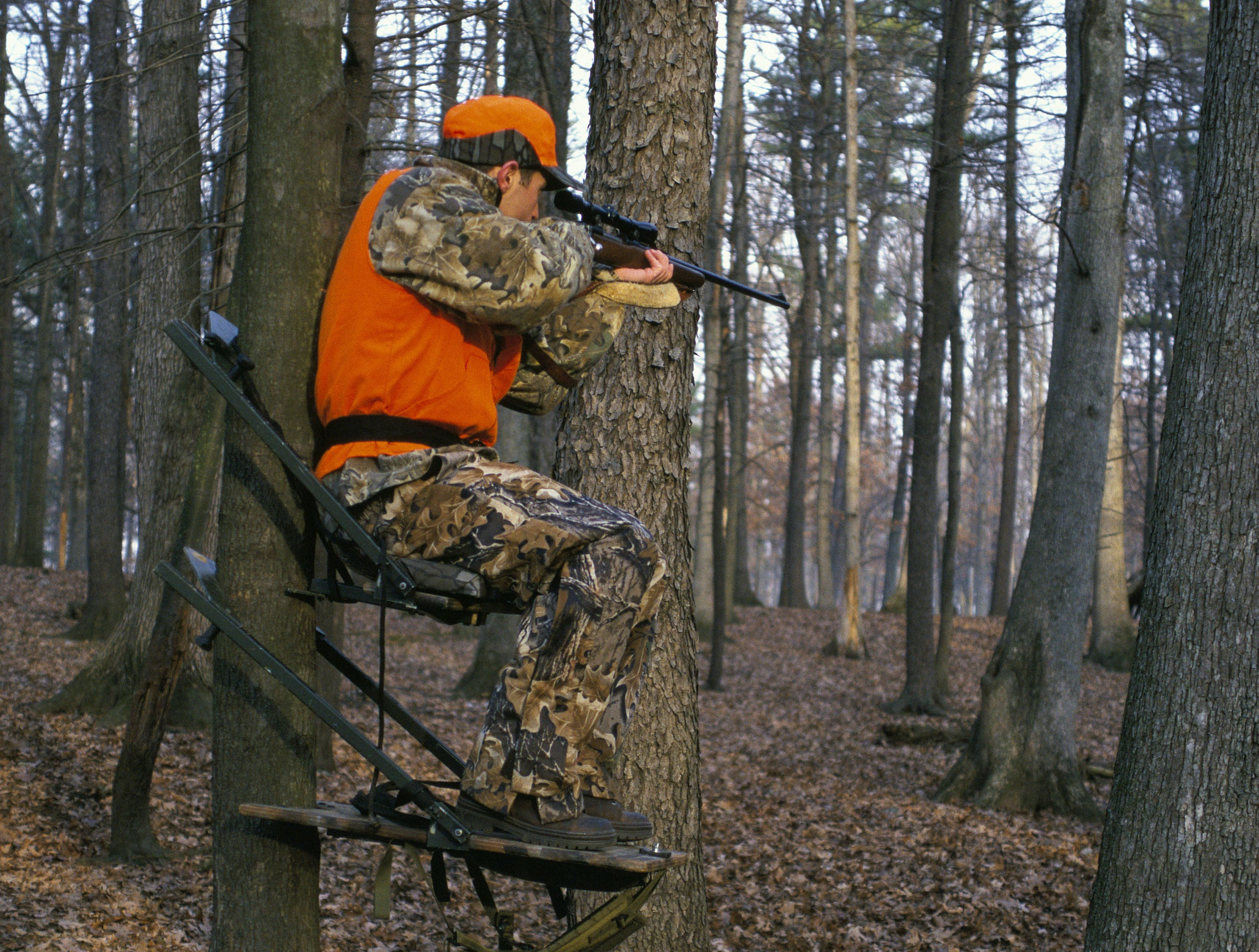 A deer hunter holds his eye to the scope of his gun while sitting in a deer stand waiting for a deer to cross his path.